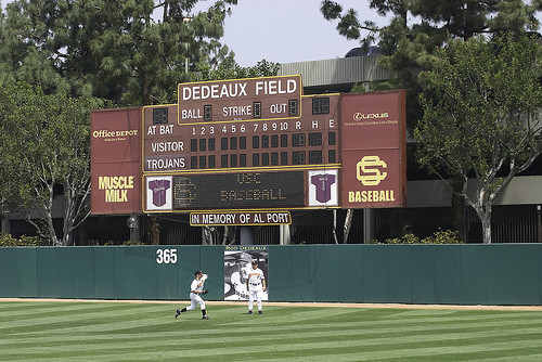 Dedeaux Field, University of Southern California in Los Angeles, California